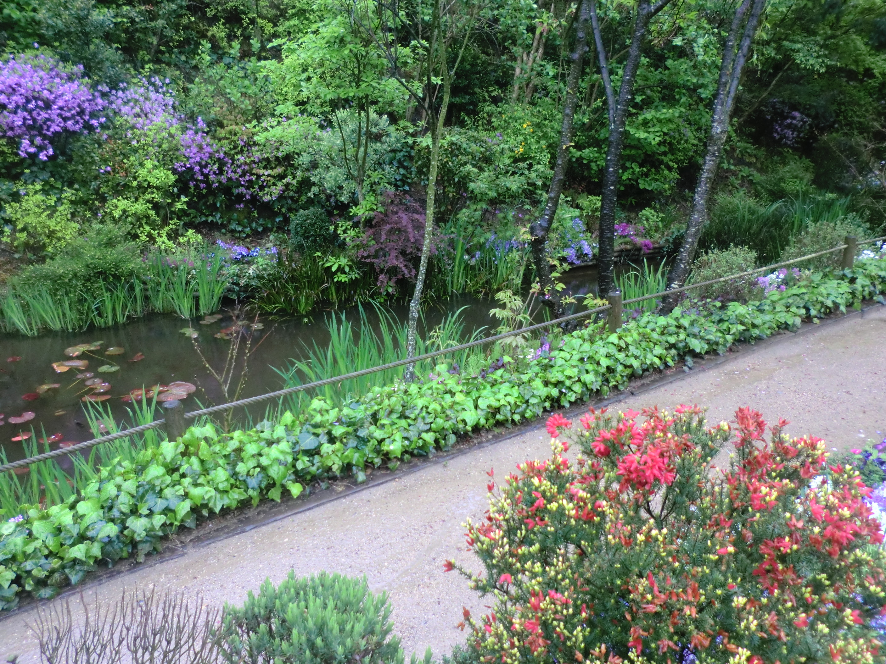 "Chichu garden" by Chichu Art Museum at Naoshima,Kagawa,Japan.